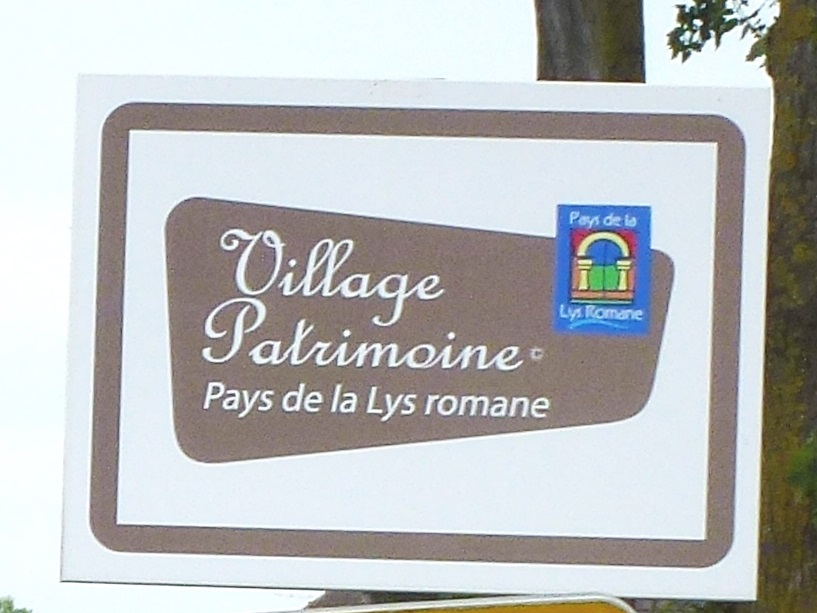 Panneau Village Patrimoine du Pays de la Lys Romane